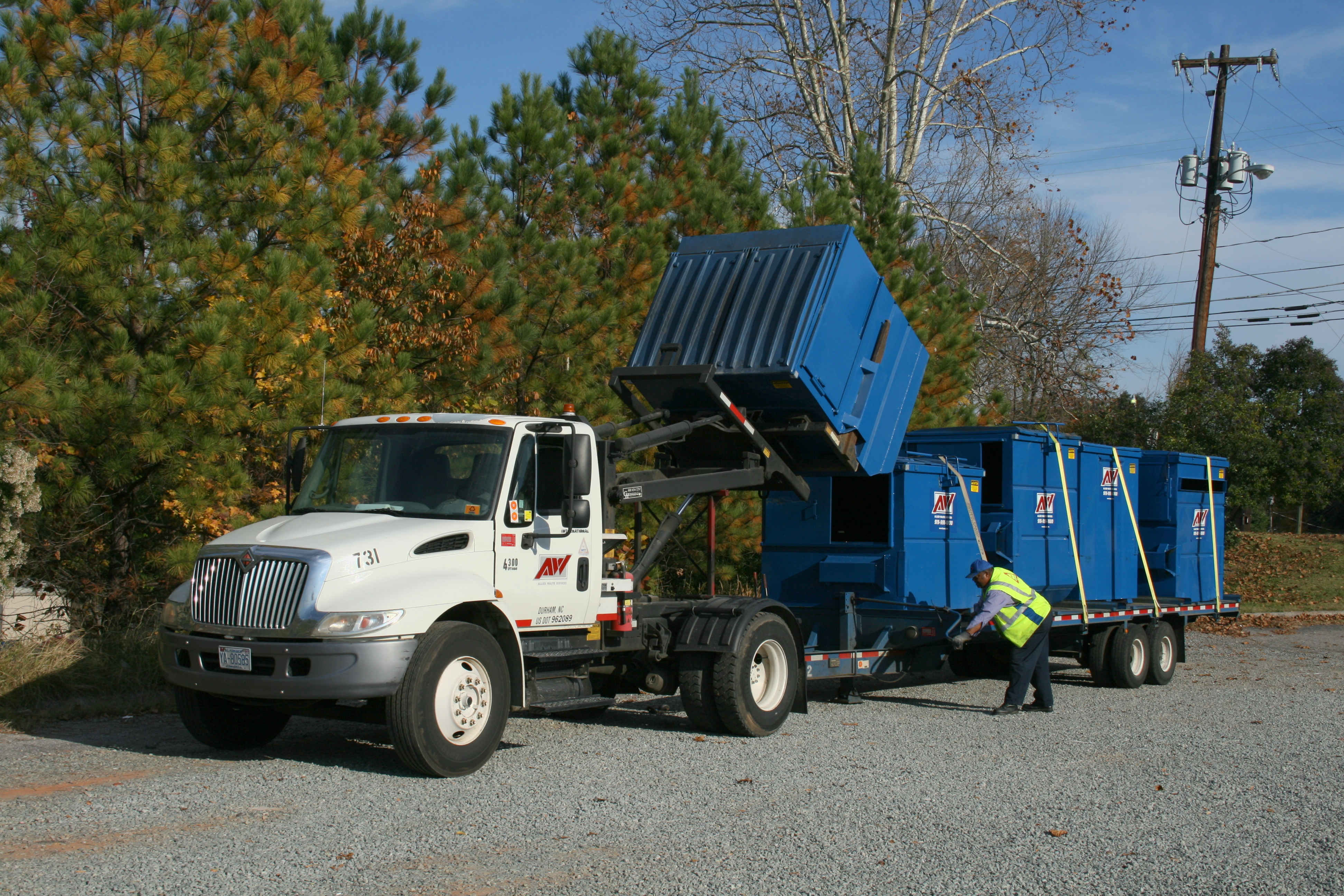 An operator unloading a blue Allied Waste Services dumpster from a specialised International truck onto a gravel lot at The Shoppes at Lakewood, a plaza in Durham, North Carolina.